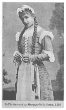 photo of Nellie Stewart as Marguerite in Faust 1888.